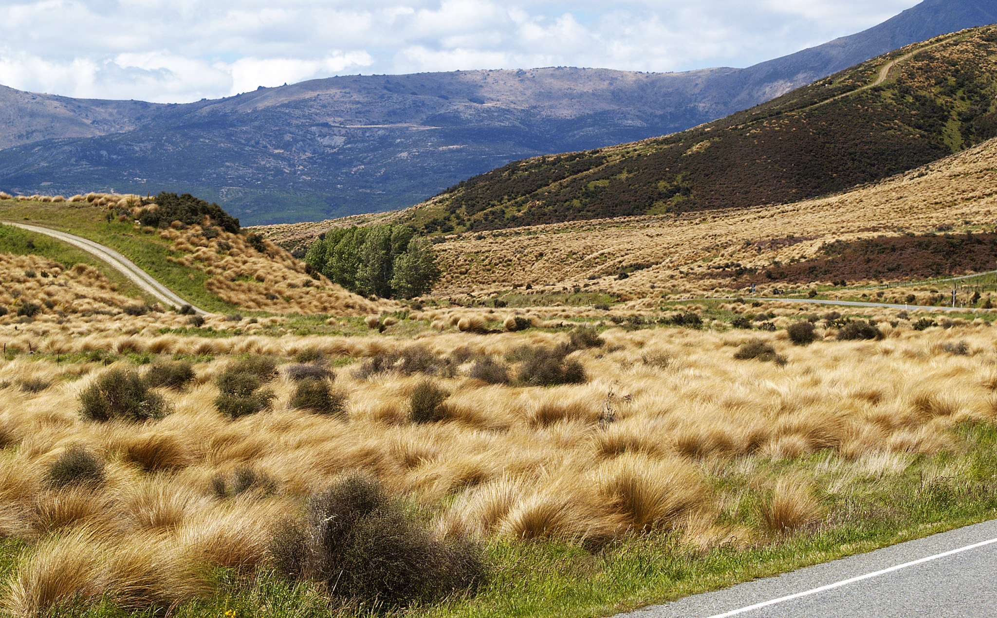 Tussock grassland at State Highway 94 between Mossburn and The Key, South Island, New Zealand